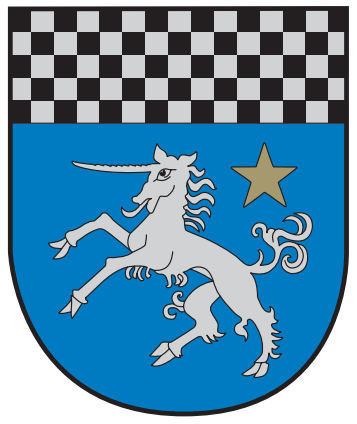 Coat of arms of Mils bei Hall, Tyrol, Austria